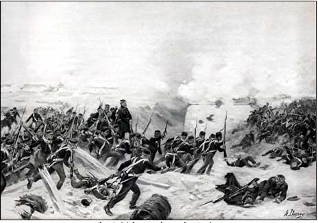 British Attack Redan Crimean War